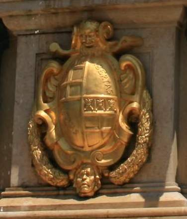 Heraldic shield (Coat of arms of Bologna) on Neptune Fountain in Batumi